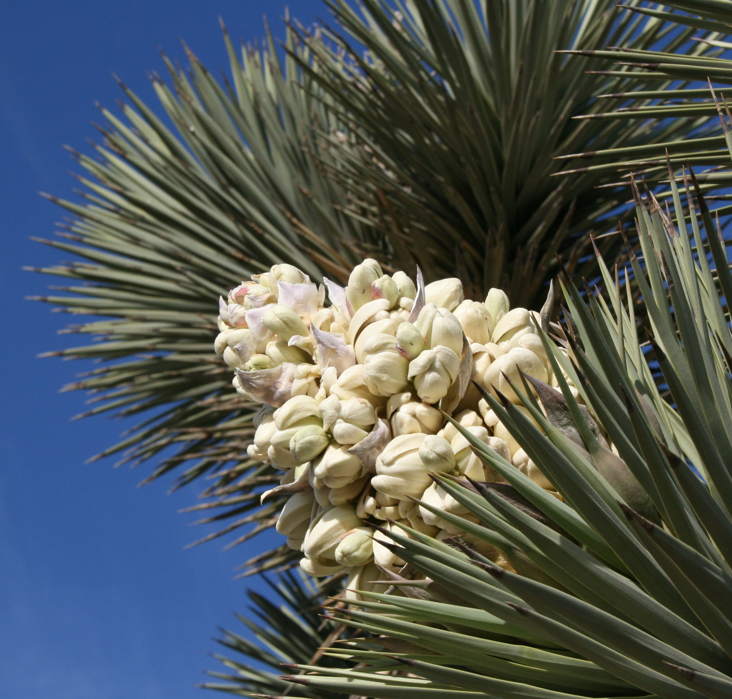 Joshua Tree (Yucca brevifolia) panicle (inflorescence). Mojave Desert near Kramer Junction, California.